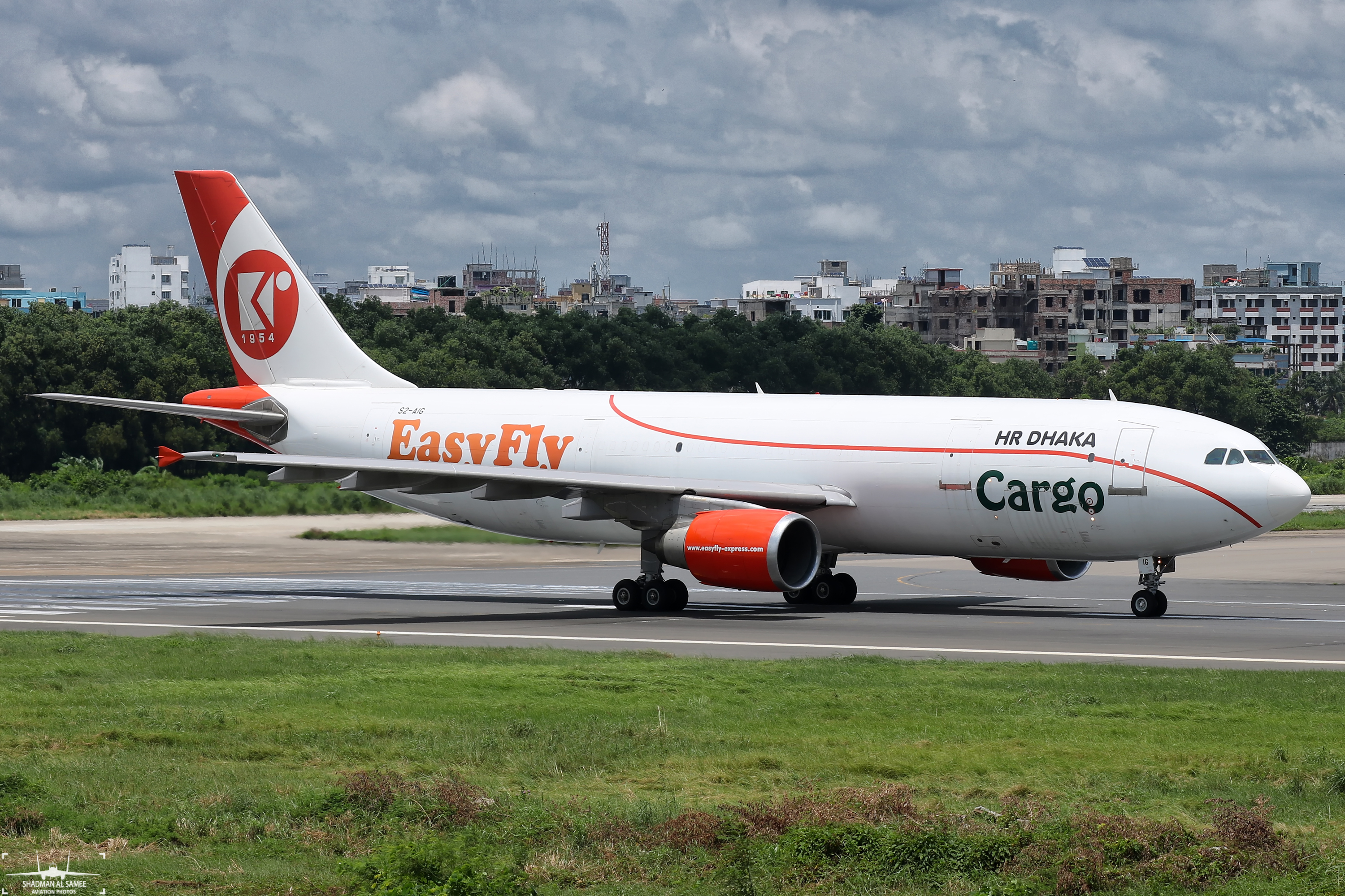 VGHS 2018: Largest Bangladeshi cargo aircraft, and the sole 'S2' registered Airbus in the country at the moment. Good to finally catch this one!